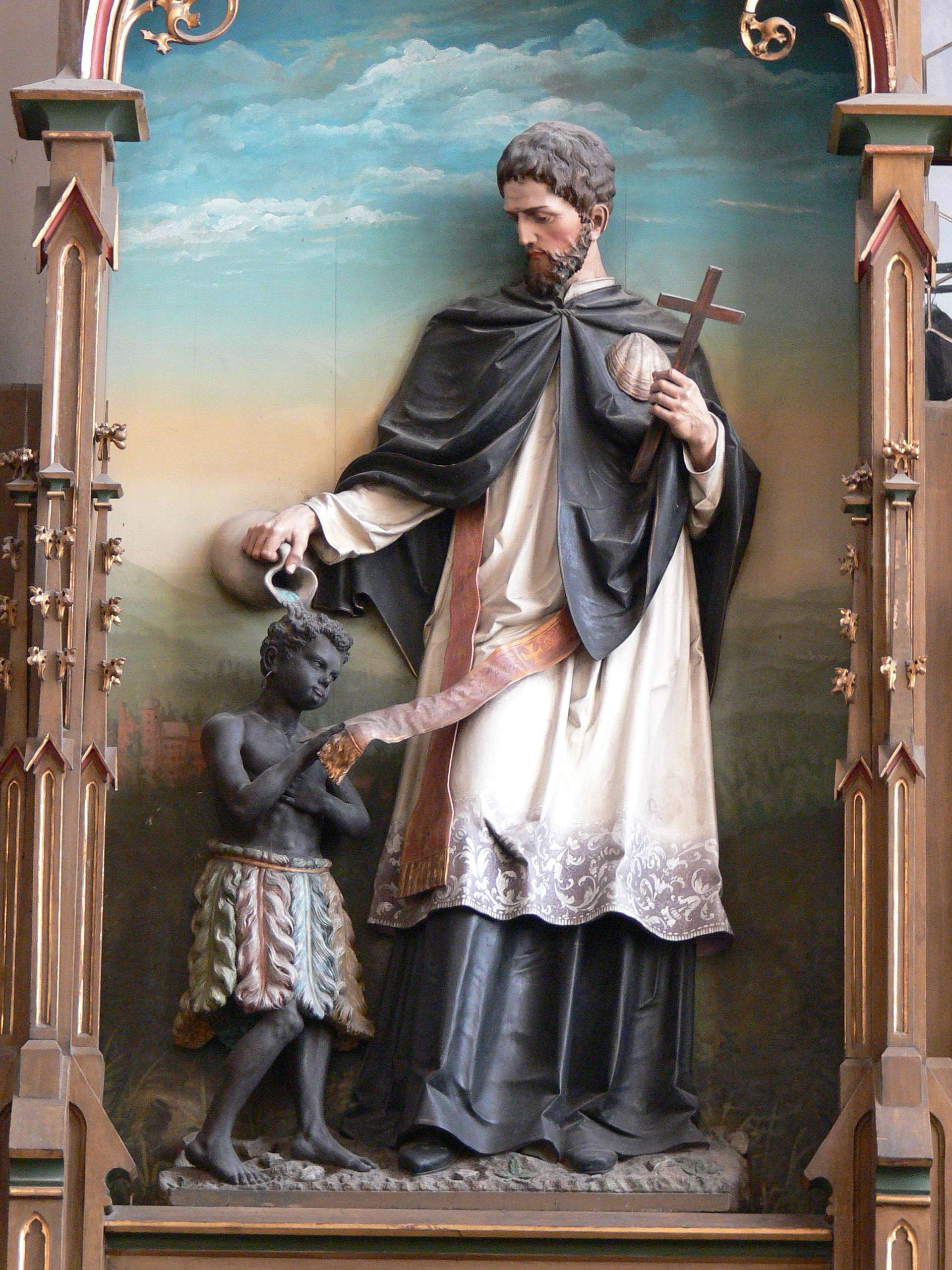 Saint Vitus church (Český Krumlov). Statue of Saint Francis Xavier ( 1897 ) as missionary.